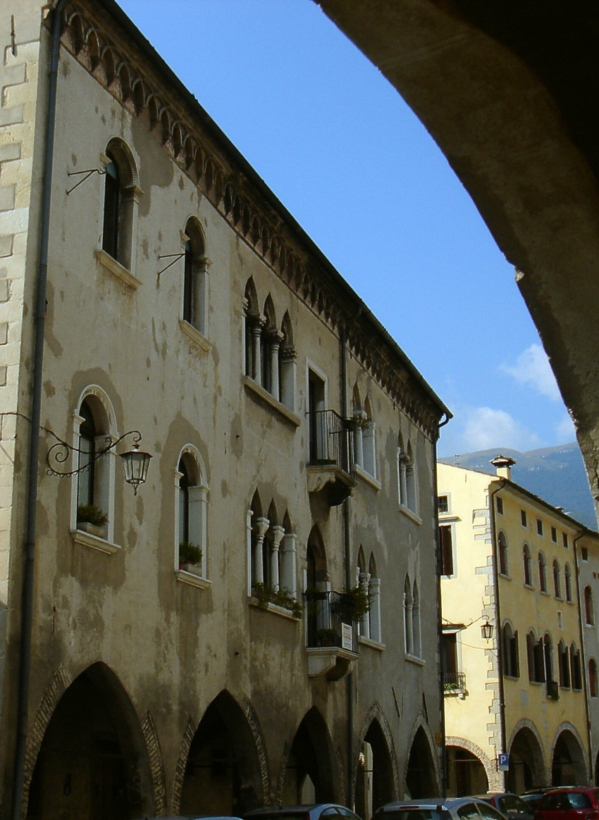 Serravalle di Vittorio Veneto (Treviso): Palazzi Cavalcanti Casoni e Flaminio.